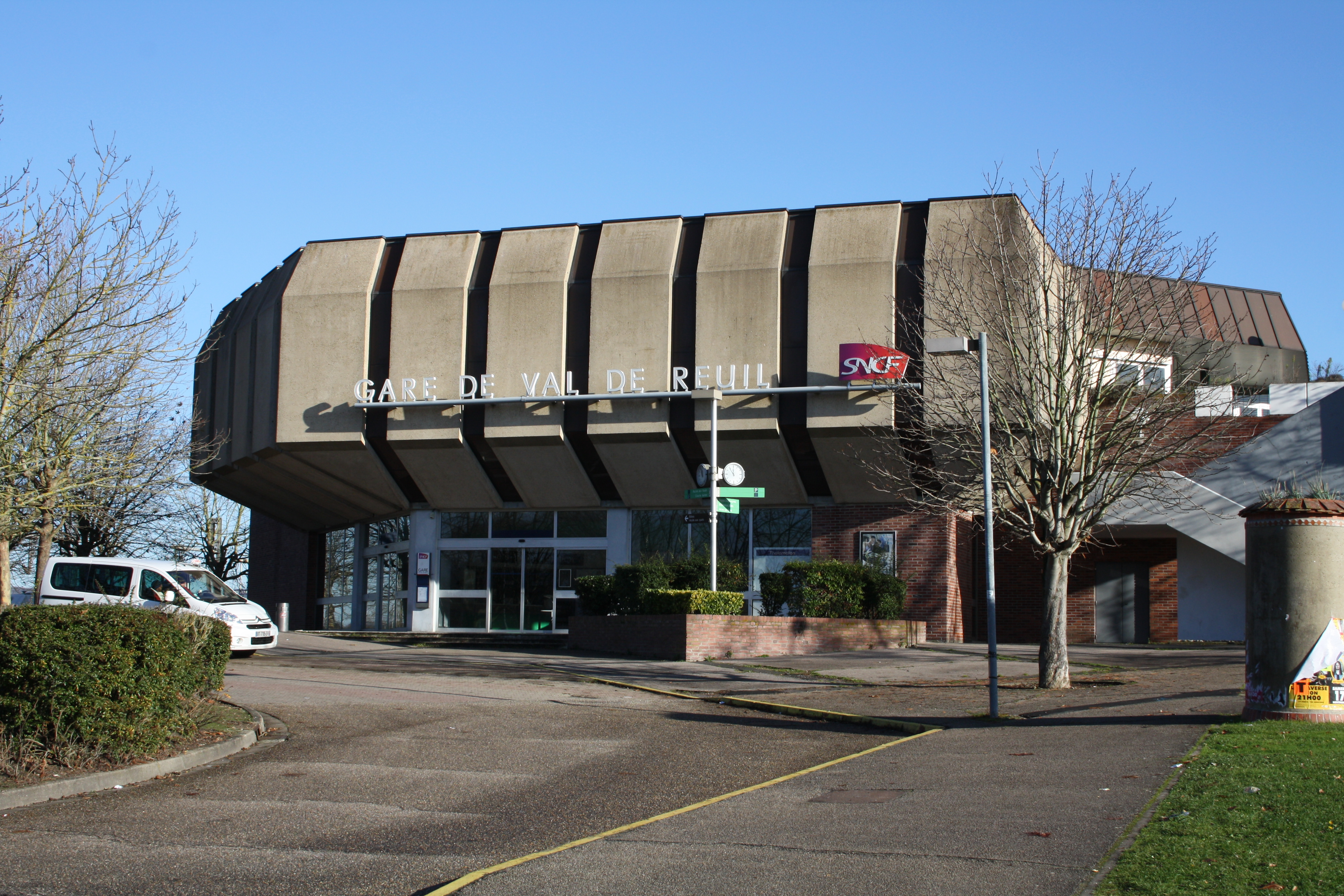 Gare SNCF de Val de Reuil (Eure)